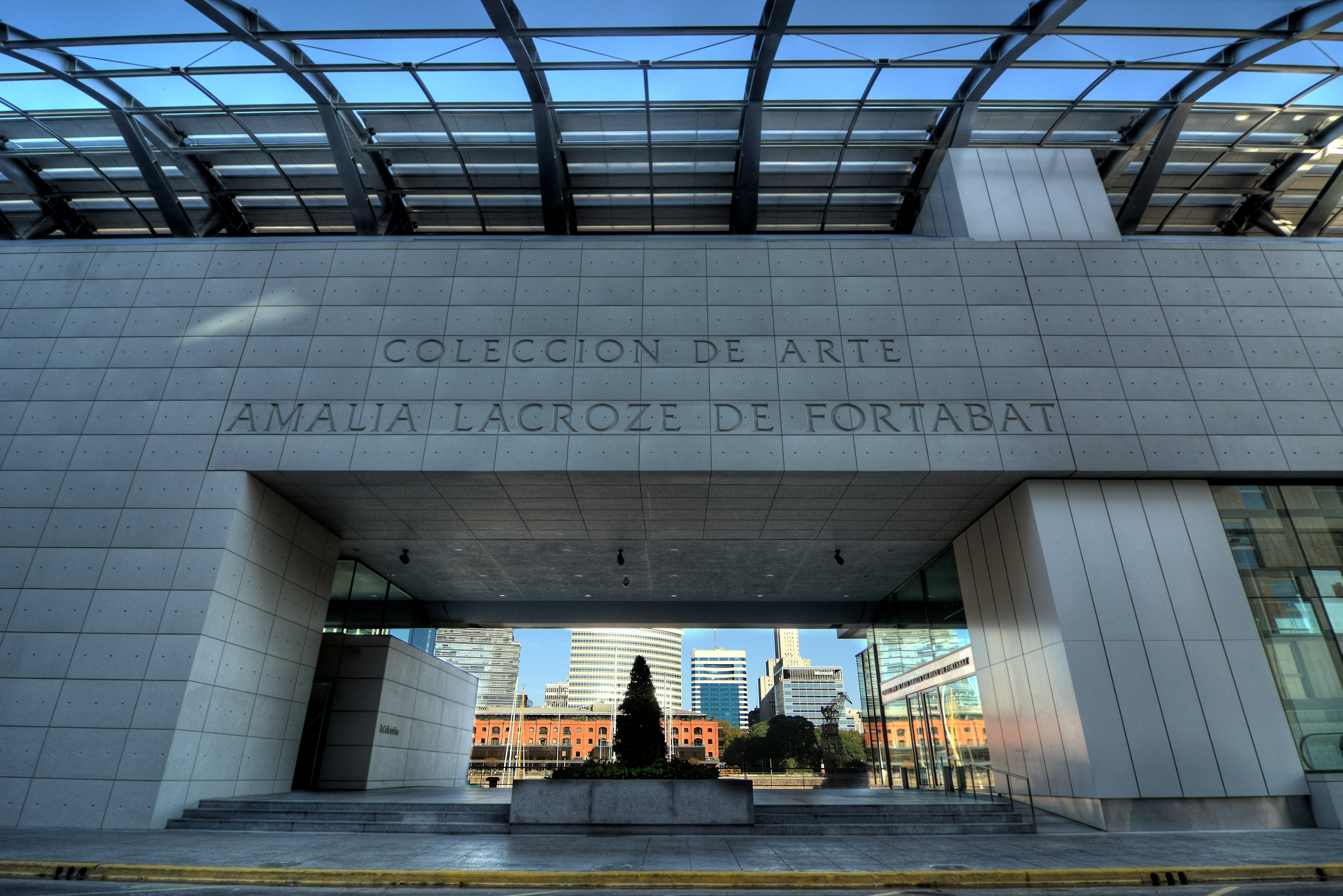 The Fortabat Art Museum, Puerto Madero, Buenos Aires.